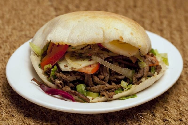 Shawarma sandwich at Golden Falafel in Menlo Park, California